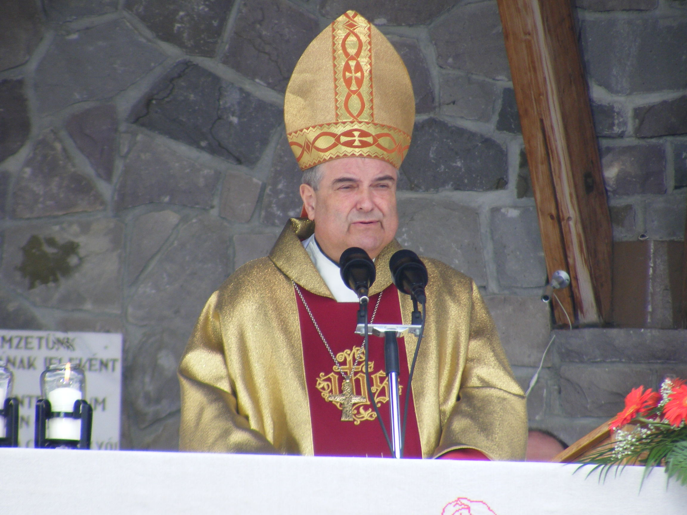 György Jakubinyi the bishop of Transsilvany.